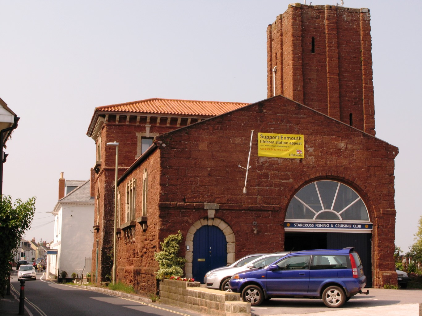 The old South Devon Railway engine house at Starcross, Devon, England. It is now used by the local yacht club.